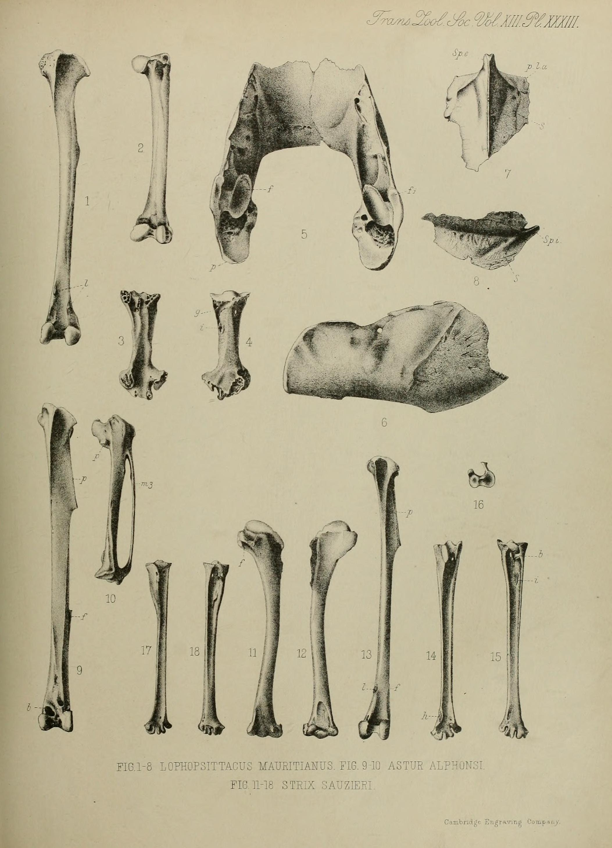 Plate XXXIII from Edward Newton and Hans Gadow's On additional bones of the Dodo and other extinct birds of Mauritius obtained by Mr. Théodore Sauzier. 1–8: Lophopsittacus mauritianus 1 Left tibia, front view. l: attachments of the transverse ligament across the long extensor tendons. 2 Right femur, posterior view. 3 Left metatarsus, plantar surface. 4 Left metatarsus, dorsal surface, g: groove for the tendon of the musculus extensor digitorum; i: insertion of the tendon of the m. tibialis anticus. 5 Dorsal view of the underjaw. p: posterior angle; f: facet for the quadrate; fi: additional facet for the jugal process of the quadrate. 6 Lateral view of the right jaw. 7 Ventral view of sternum. Sp.e.: spina externa sterni; p.l.a.: anterior lateral process; S: lateral line of m. subclavius. 8 Right lateral view of sternum. Sp.i.: spina externa sterni ; S: median line of m. subclavius. 9–10: Circus maillardi 9 Left tibia, front view. f: rest of fibula; b: bony bridge over the tendon of the m. extensor digitorum; p: peroneal crest. 10 Left metacarpals, lateral view. p: articular facet of the pollex; m3: metacarpale III 11–18: Mascarenotus sauzieri 11 Inner view of humerus. f: pneumatic foramen. 12 Outer view of humerus. 13 Left tibia, front view. p: peroneal crest; f: distal portion of fibula ; l: attachment of transverse ligament. 14 Posterior view of right tarso-metatarsus. h: bony bridge across the tendon of the m. tibialis anticus. 15 Anterior view of right tarso-metatarsus. b: facet for the hallux's metatarsal; i: insertion of the m. tibialis anticus. 16 Proximal end of the tarsus. 17 Posterior view of the small pair of tarso-metatarsals. 18 Anterior view of the small pair of tarso-metatarsals.